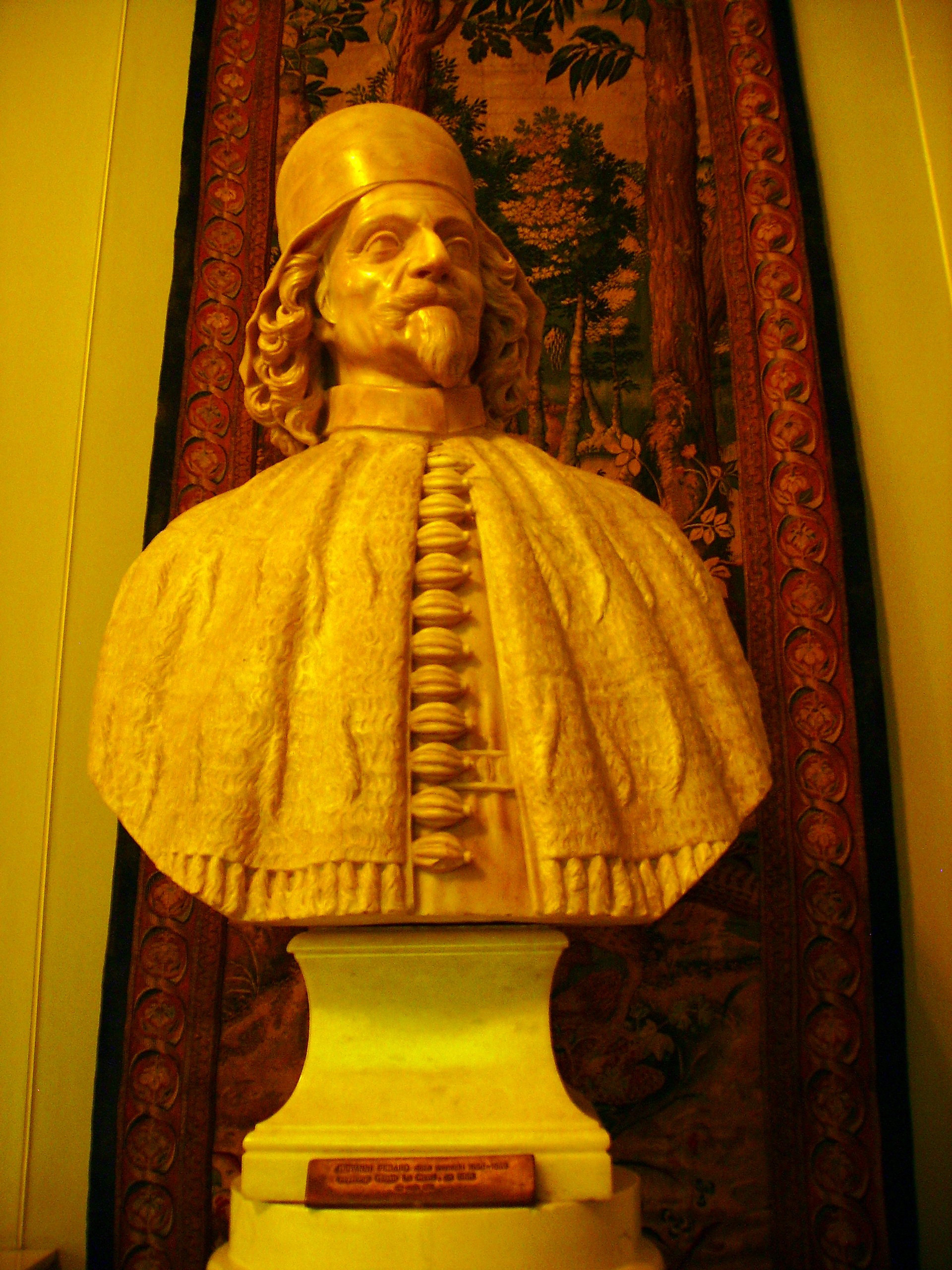 Bust of Doge Giovanni Pesaro by Giusto Le Curt (1658)